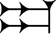 Cuneiform sign. (in sub-section of "2-horizontals", at start of sign, (left)) Sign for "ab"-("ap")-(b, un-aspirated, p aspirated), and used in some of the Amarna letters when referring to the "fathers of the kings" in texts; for abu, Akkadian language for "father". Used in the Amarna letters for name of letter author, and city-state ruler: Labaya, (author letters EA 252, 253, 254 and other letters where mentioned). Also in Ayyab's name, letter EA 364, obverse-(A-iYa-aB).